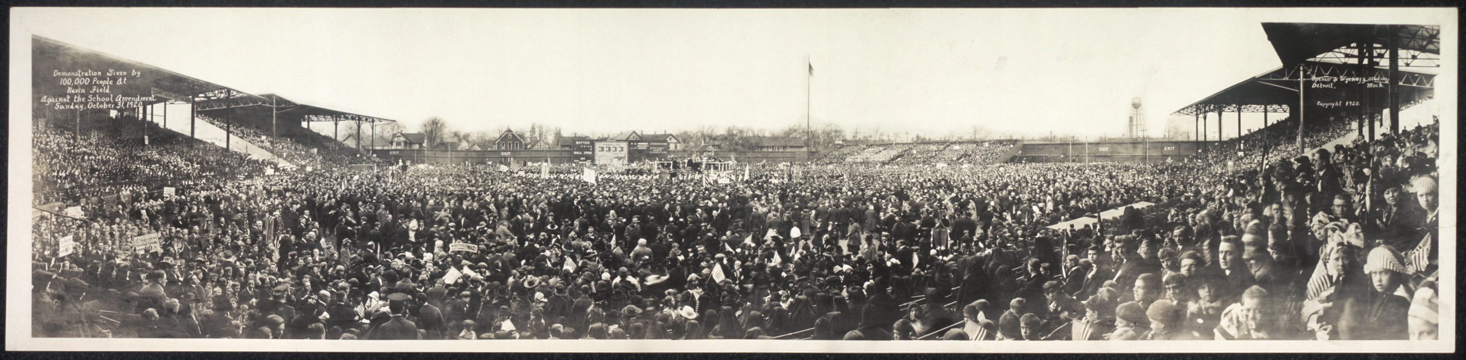 Demonstration given by 100,000 people at Navin Field against the school amendment, Sunday, October 31, 1920